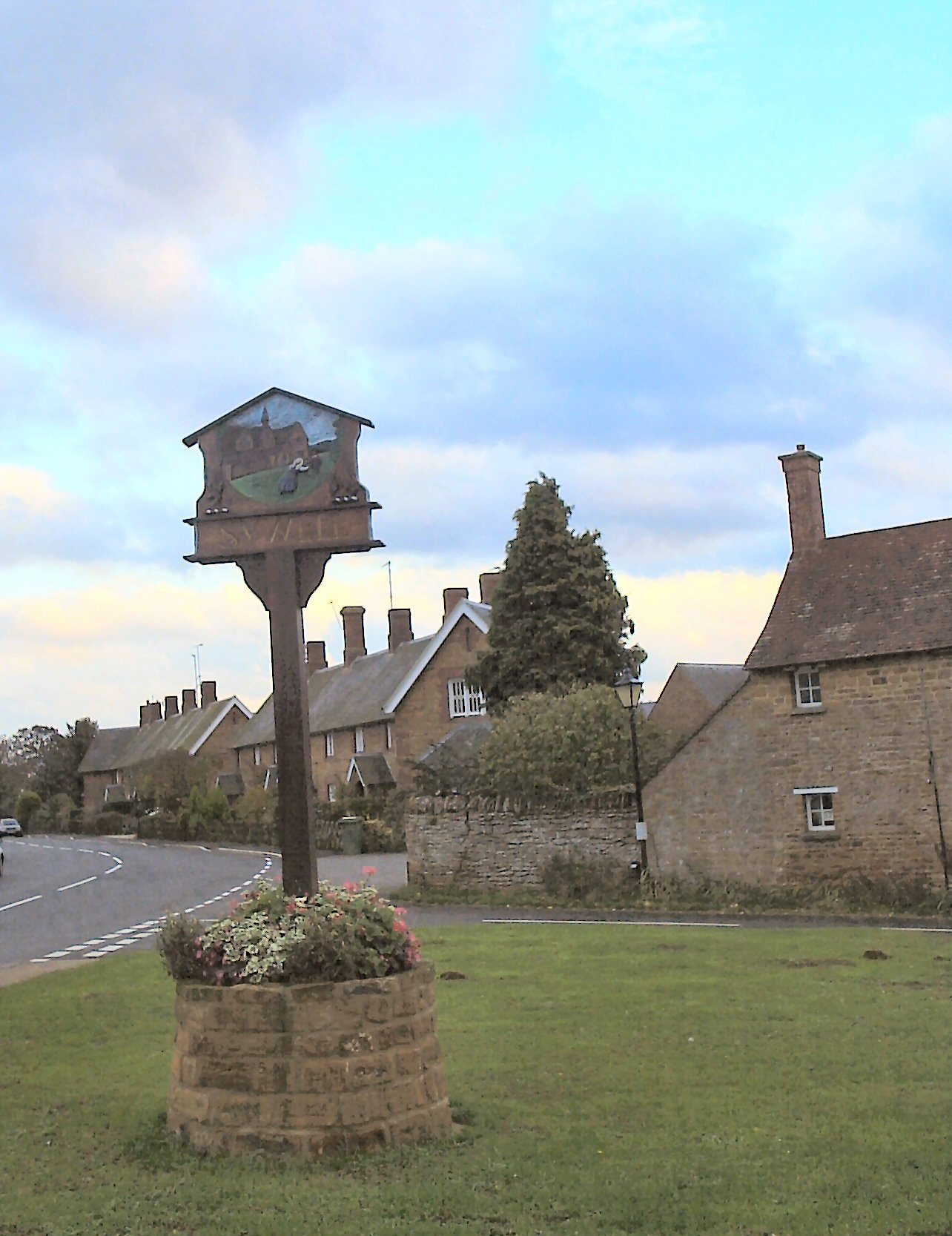 The village sign for Sywell, Northants. Picture by R Neil MArshman (c)